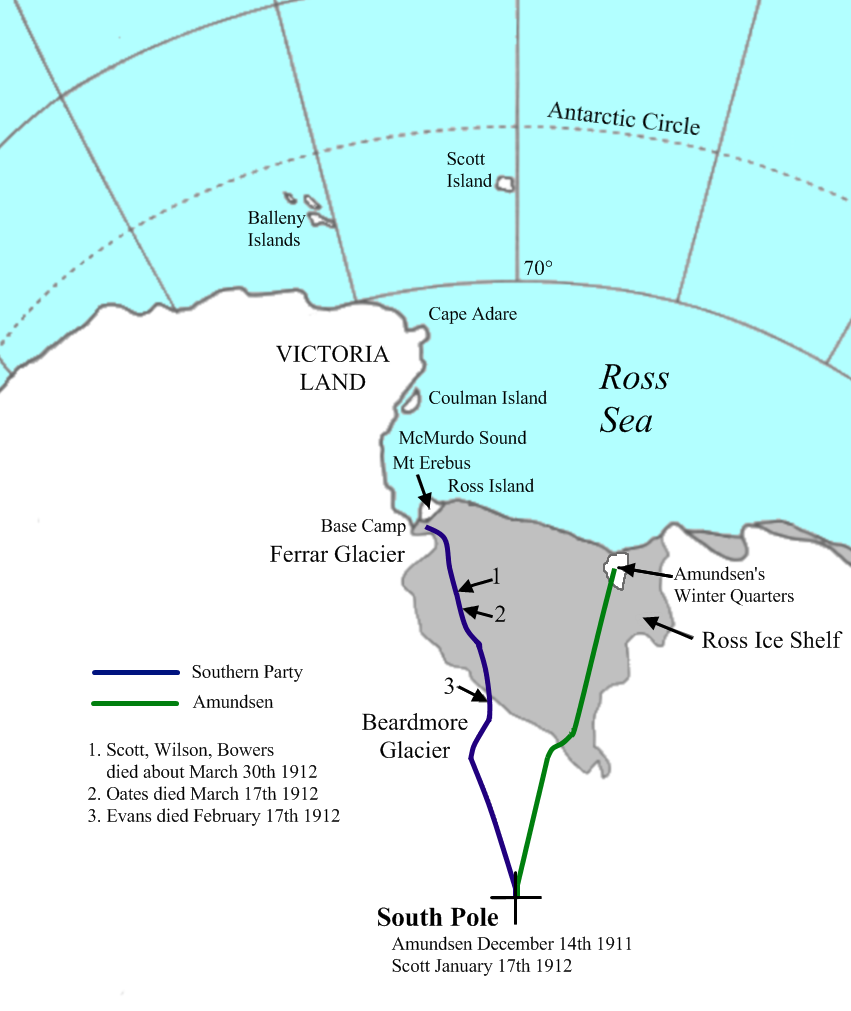 Map of The Ross Sector with details of Terra Nova and Amundsen's expeditions to the South Pole